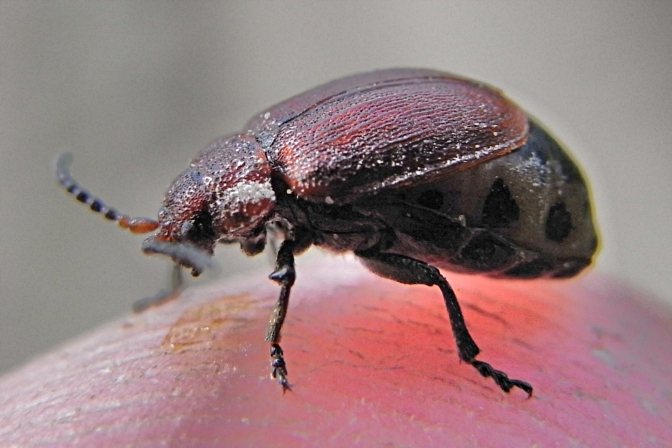 Lochmaea crataegi from Hungary, Hercegszanto, at 2010-05-14 Ricoh R8